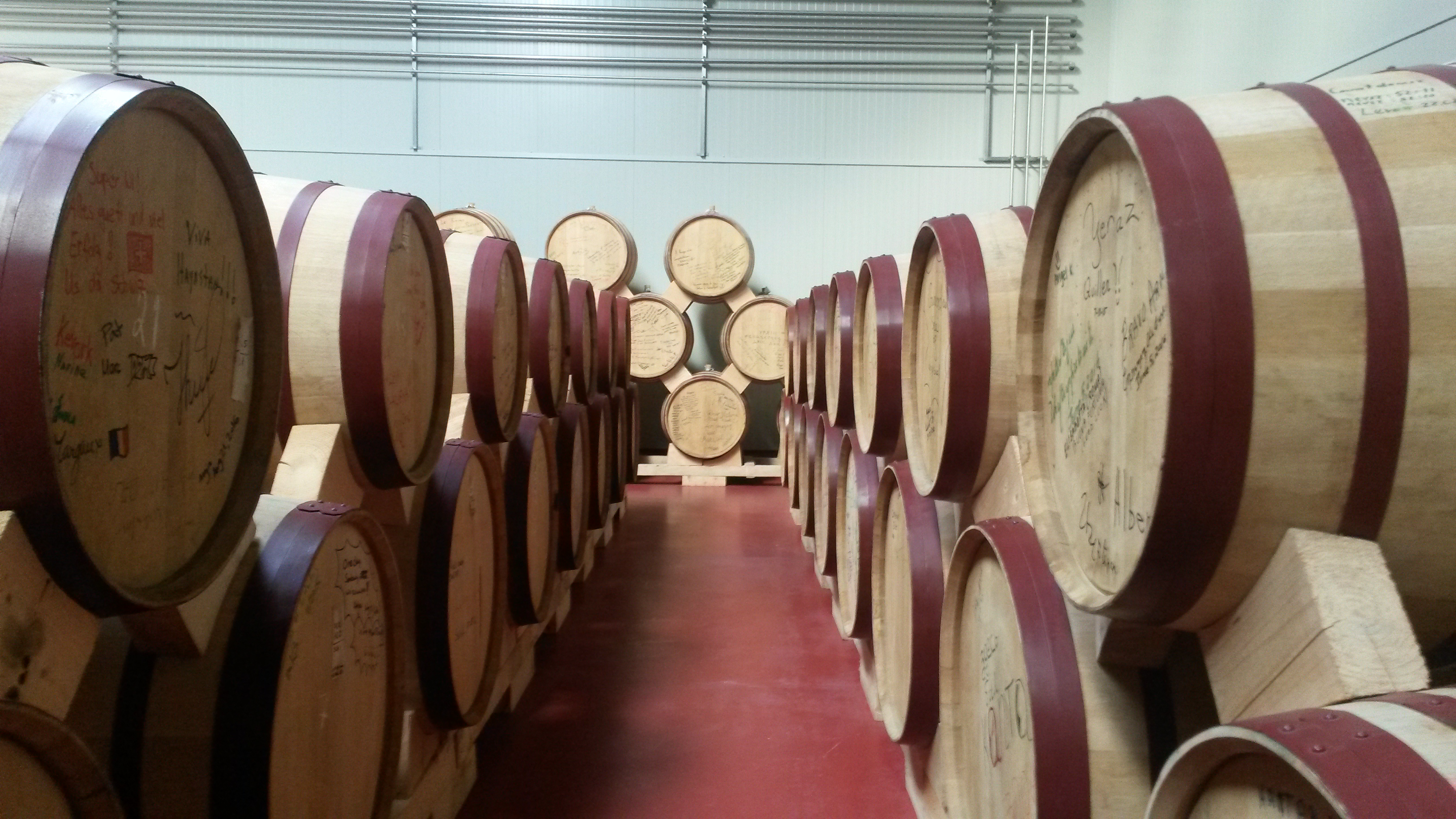 ԱրմԱսի գինու տակառները wine barrels of ArmAs